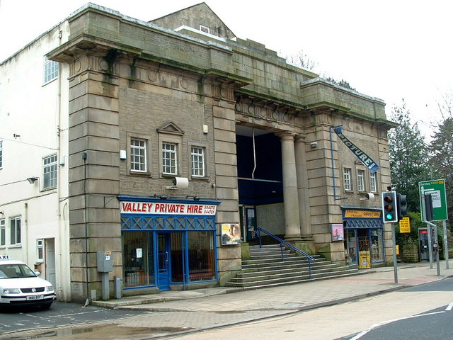 Hebden Bridge Picture House. Opened on 12th July 1921. Restored in 1998. The cinema is now council-owned